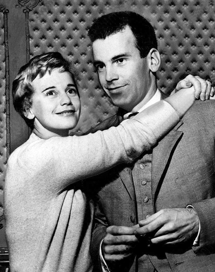 Press photo of Maria Schell and Maximilian Schell.